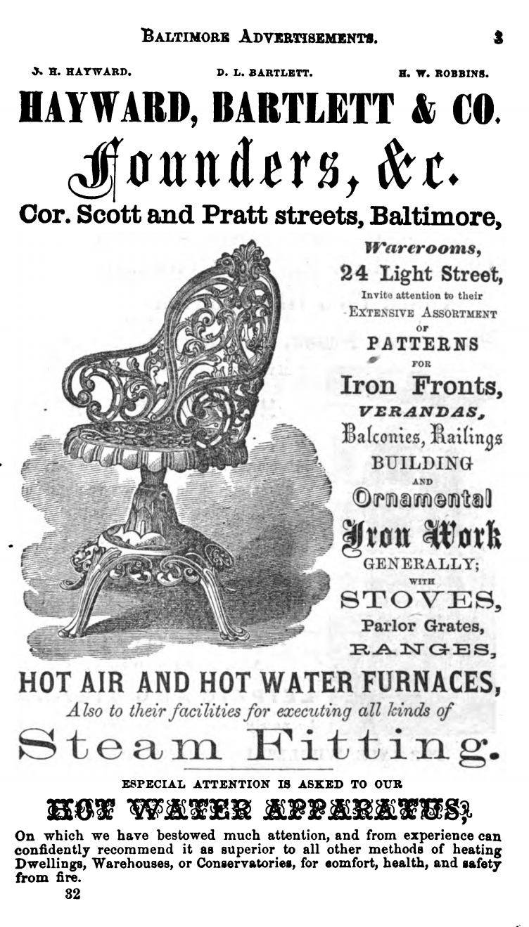 Hayward, Bartlett & Co. Foundry Advertisement - Baltimore, Maryland - ca. 1860